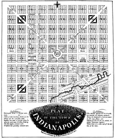 Alexander Ralston's plan for town of Indianapolis, 1821. See English Wikipedia articles History of Indianapolis and Alexander Ralston for more details about this image.